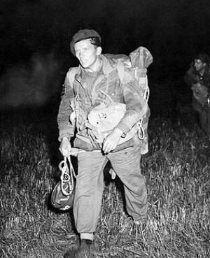 NATO Exercise STRONG ENTERPRISE, near Slagelse, Denmark, 23 September 1955. A paratrooper of the British 21st Special Air Service walks off the dropping zone area after a night drop.